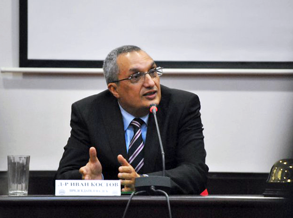 Lecture of Ivan Kostov in the University of National and World Economy, Sofia.